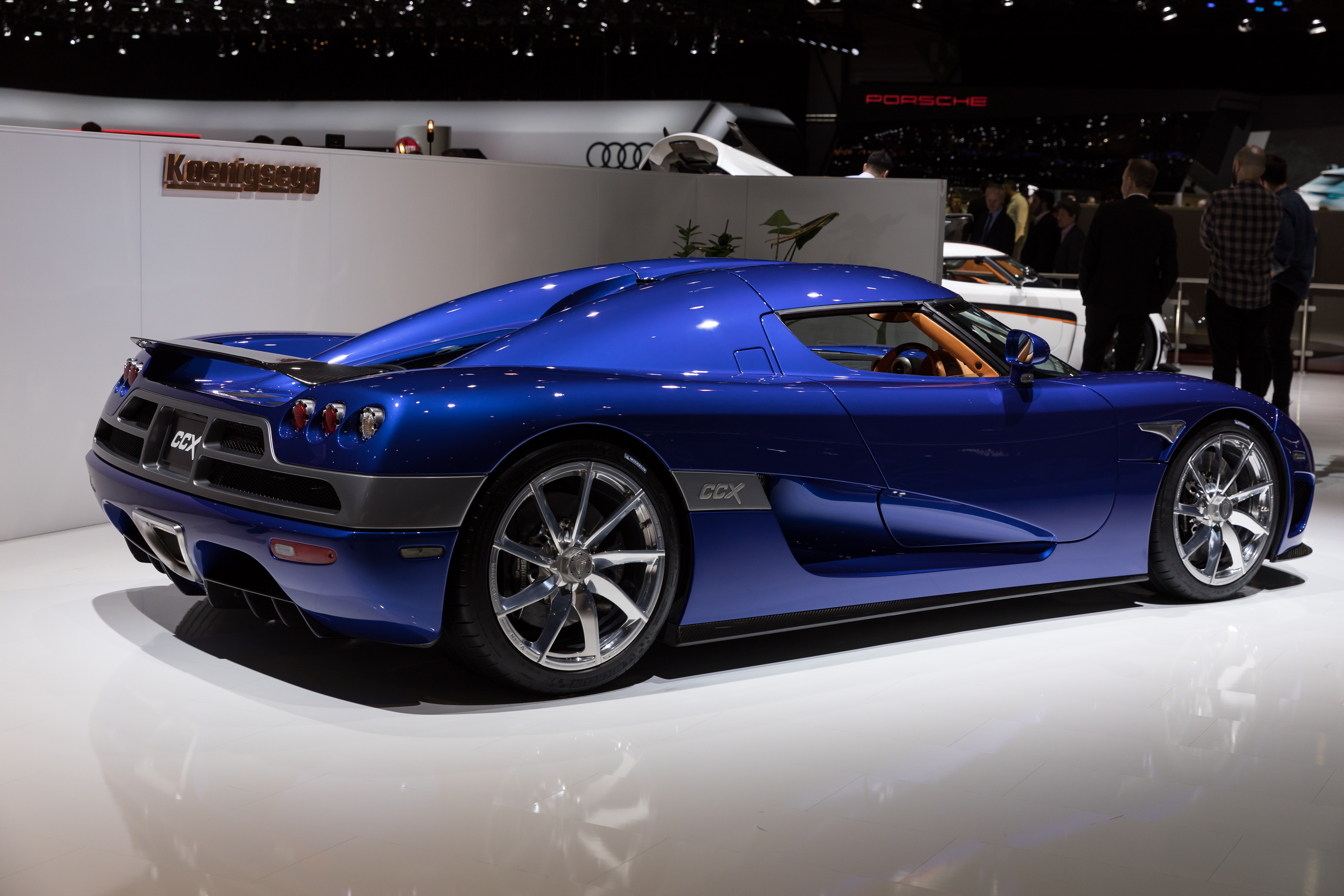 Geneva International Motor Show 2018